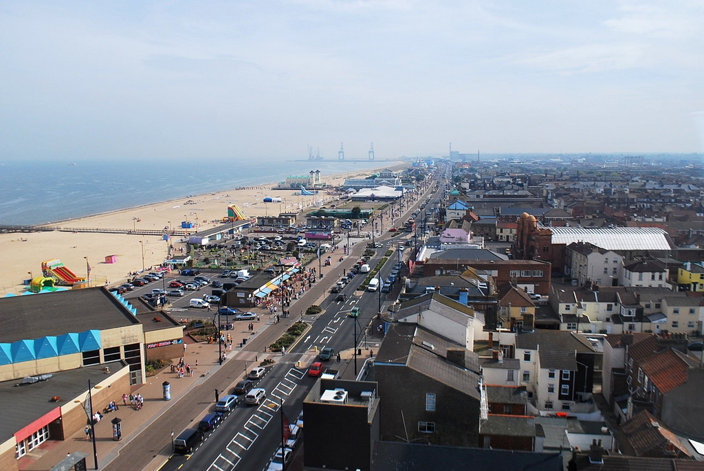 A view of Great Yarmouth's Golden Mile from the top of the Atlantis Tower.